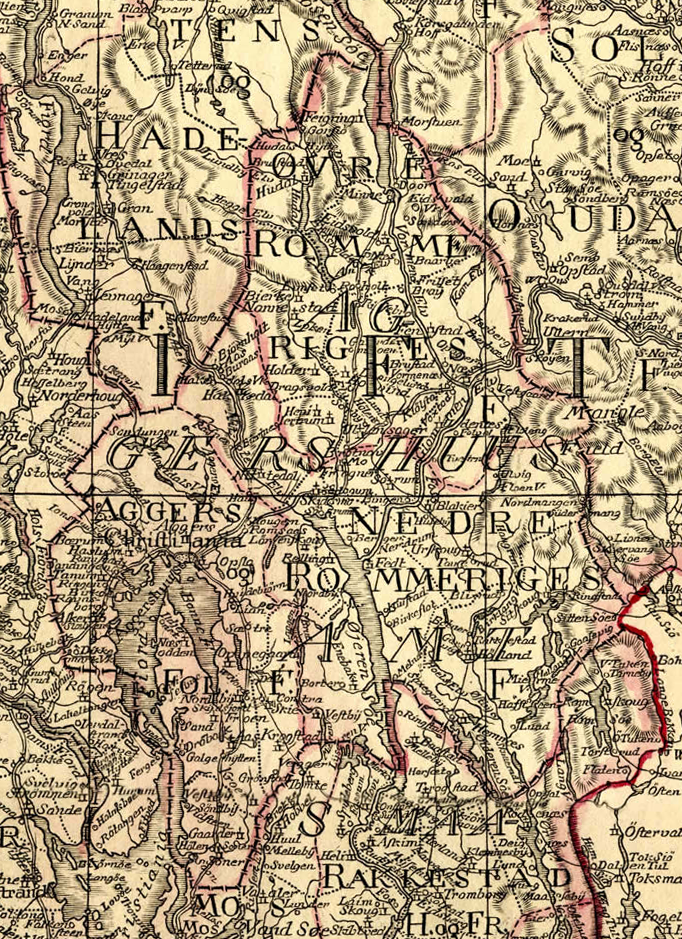 Map over Southern Norway in 1785 drawn by Christian Jochum Pontoppidan.